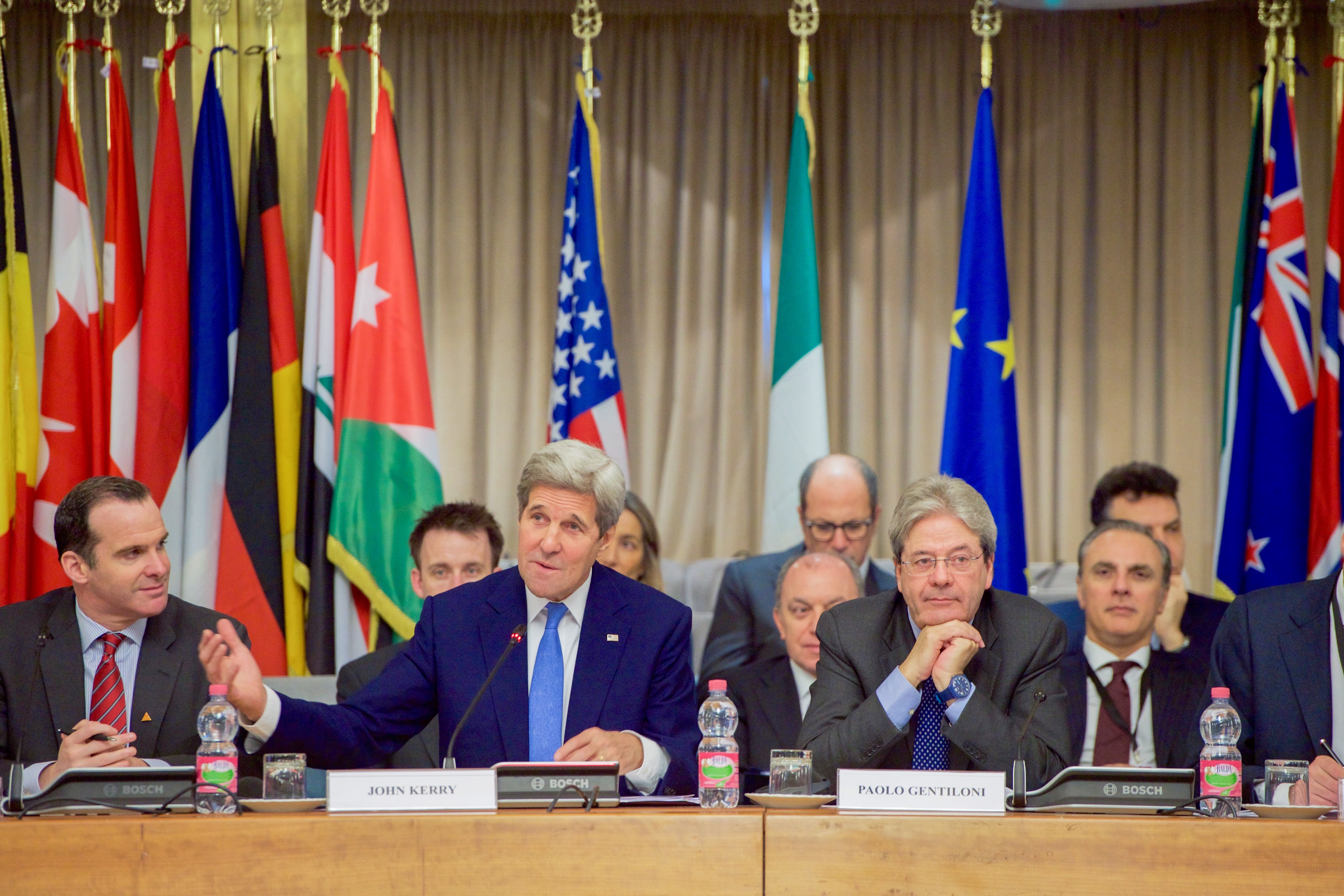 U.S. Secretary of State John Kerry delivers his opening remarks on February 2, 2016, at the Italian Foreign Ministry in Rome, Italy, at the outset of a meeting of the multinational counter-ISIL coalition. [State Department photo/ Public Domain]